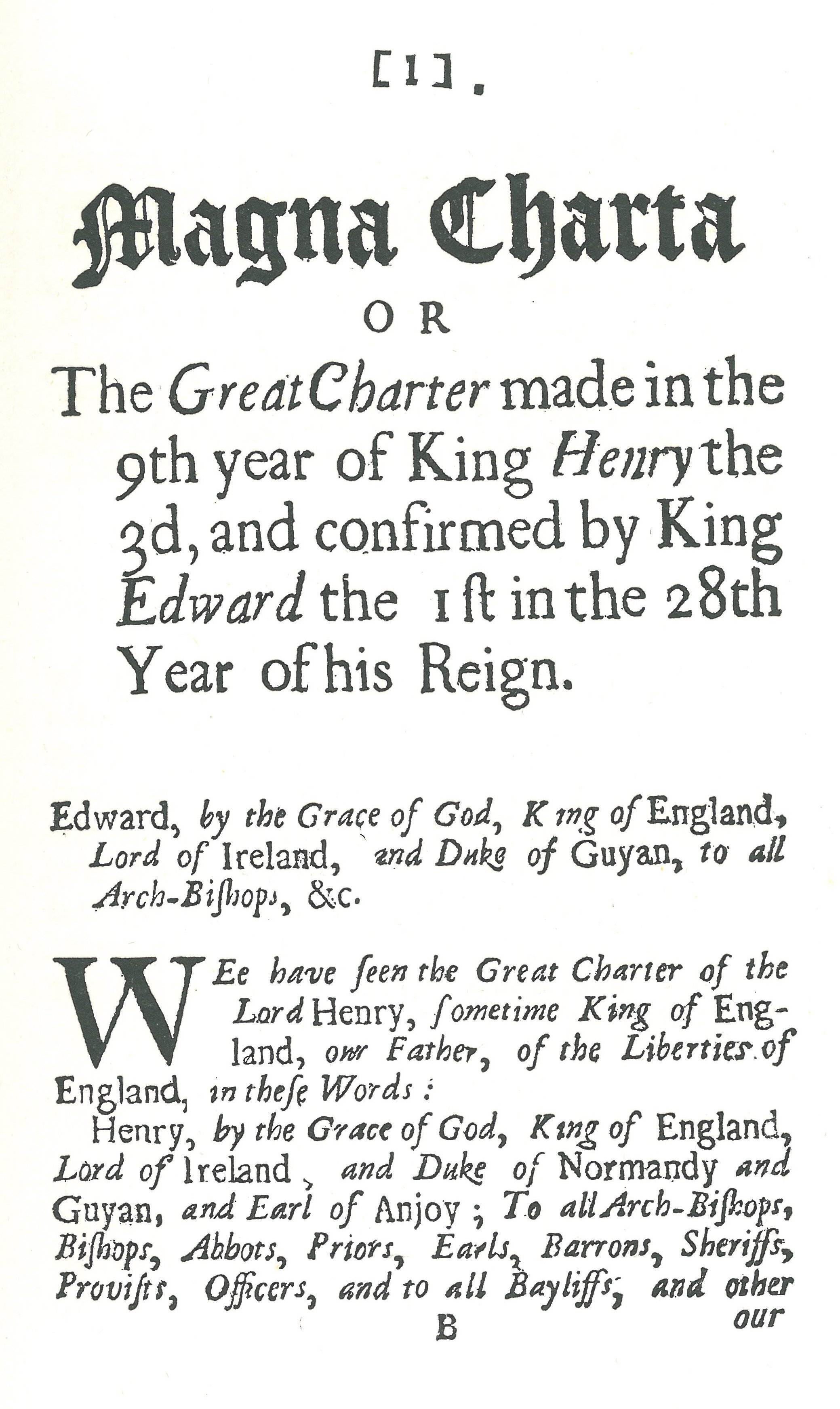 The first page of William Penn (1687) The Excellent Priviledge of Liberty and Property being the Birth-right of the Free-born Subjects of England. Containing I. Magna Charta, with a Learned Comment upon it. II. The Confirmation of the Charters of the Liberties of England and of the Forest, made in the 35th Year of Edward the First. III. A Statute made the 34 Edw. I. commonly called De tallageo non concedendo; wherein all Fundamental Laws, Liberties and Customs are Confirmed. With a Comment upon it. IV. An Abstract of the Pattent Granted by the King to VVilliam Penn and his Heirs and Assigns for the Province of Pennsylvania. V. And Lastly, the Charter of Liberties Granted by the said VVilliam Penn to the Free-men and Inhabitants of the Province of Pennsylvania and Territories thereunto Annexed, in America, Philadelphia, Penn.: Printed by William Bradford OCLC: 64617420. This version of the book was reprinted in William Penn (1897) The Excellent Priviledge of Liberty and Property: Being a Reprint and Fac-simile of the First American Edition of Magna Charta Printed in 1687 under the Direction of William Penn by William Bradford, Philadelphia, Penn.: Printed for The Philobiblon Club OCLC: 148042431.